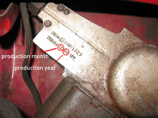 Author: Filip Despot